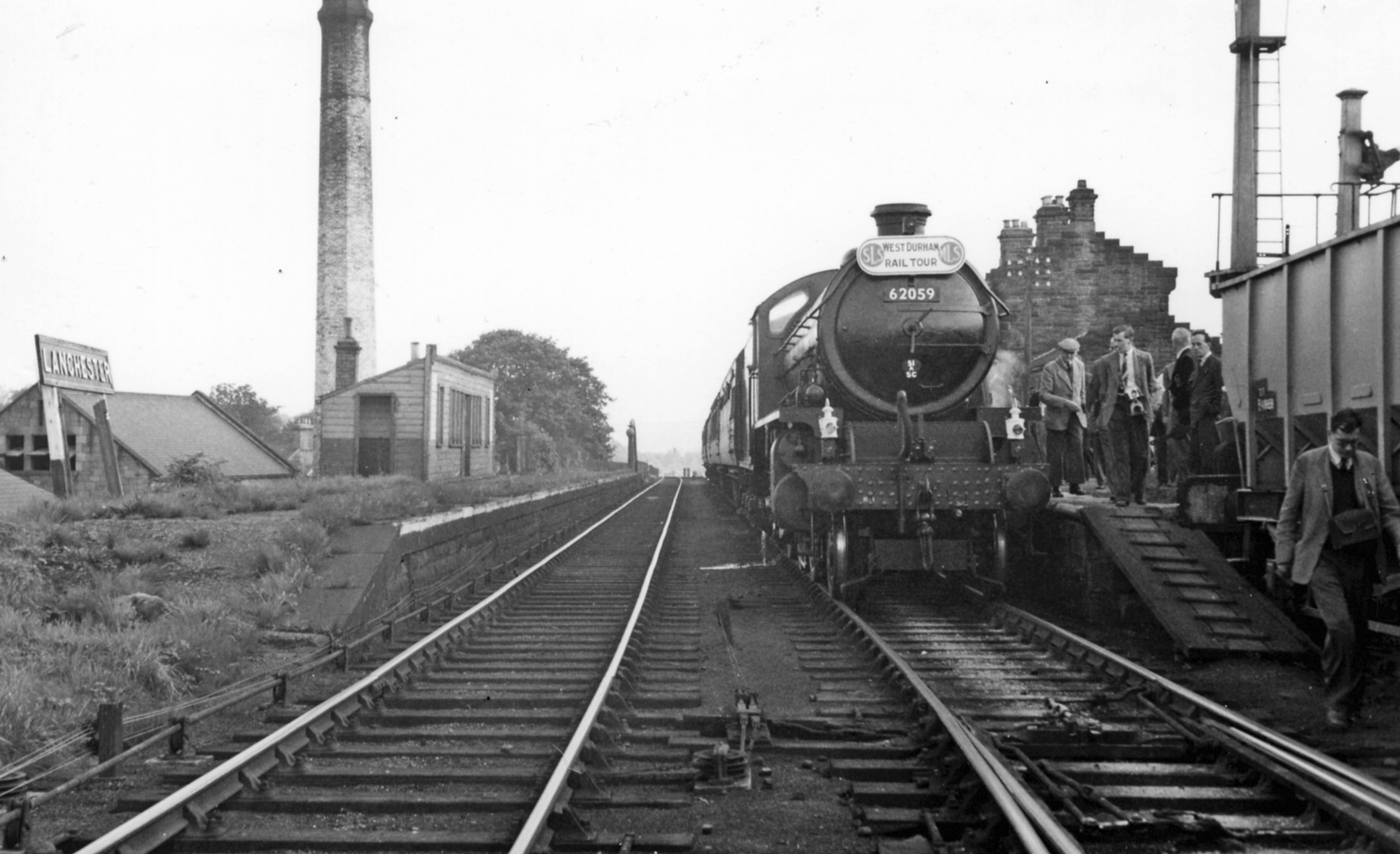 Lanchester station (abandoned), with Rail Tour train, 1958View SE towards Durham, on the then freight-only (since 2/5/39) Durham - Blackhill ex-NER line, which remained for freight until 5/7/65. The SLS West Durham Rail Tour is head by Thompson-design K1 2-6-0 No. 62059 (built 12/59, withdrawn 2/67 - a short life).